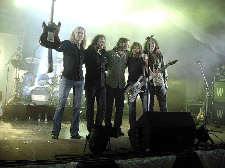 Karat (aka K...!) live in concert